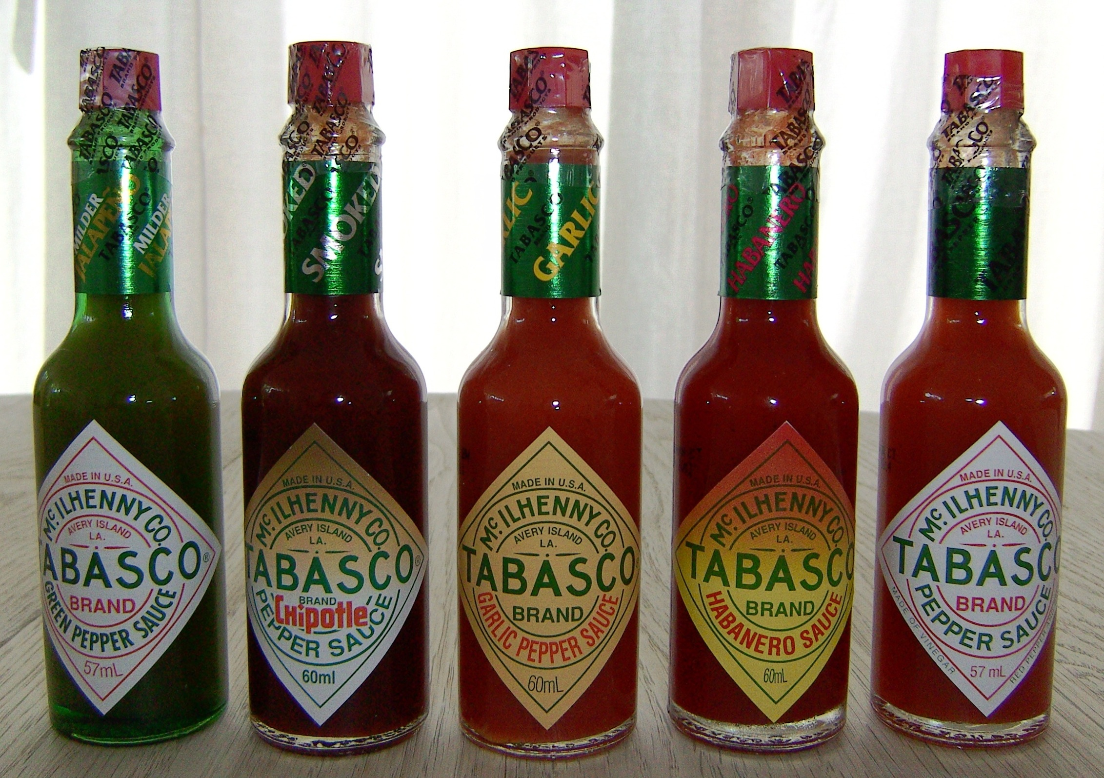 tabasco varieties in Germany